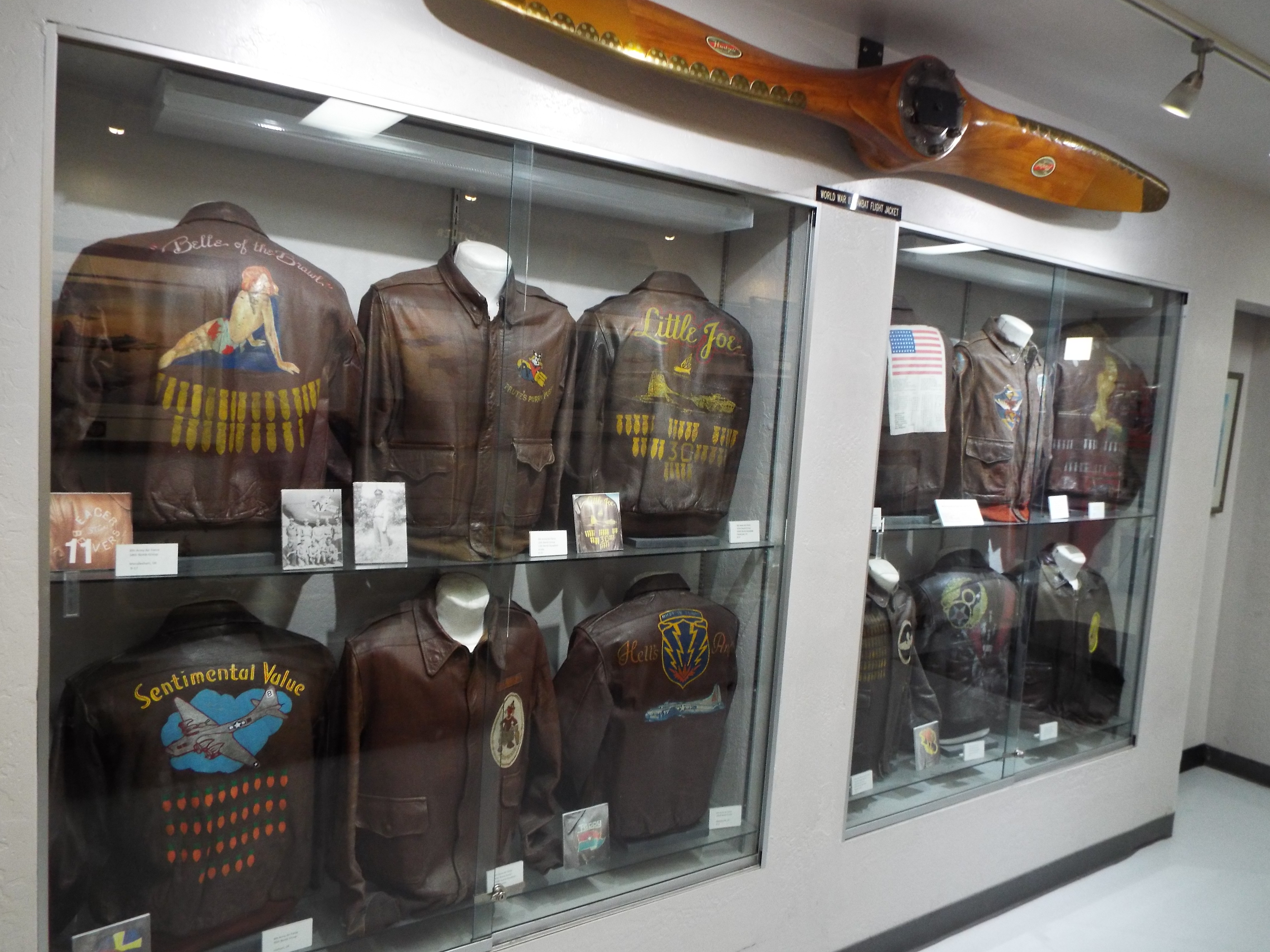 WW II aviator's jackets on display in the WW II aviator's jackets on display in the Arizona Commemorative Air Force Museum